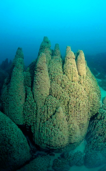 Wide angle shot at Three Poles, 70–80 feet.